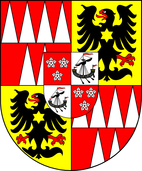 Coat of arms (shield only) of Maximilian von Hamilton, bishop of Olomouc, Czech Republic (1761 - 1776).